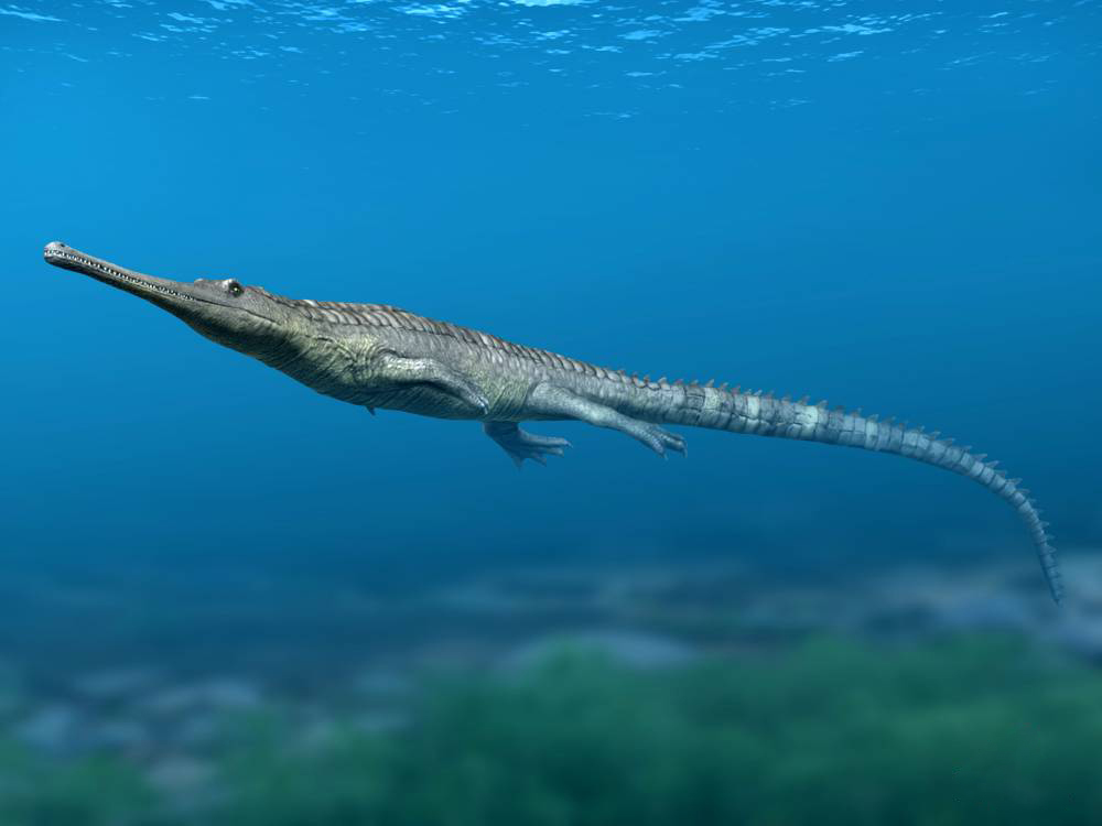 Hypothetical life reconstruction of Gavialinum rhodani